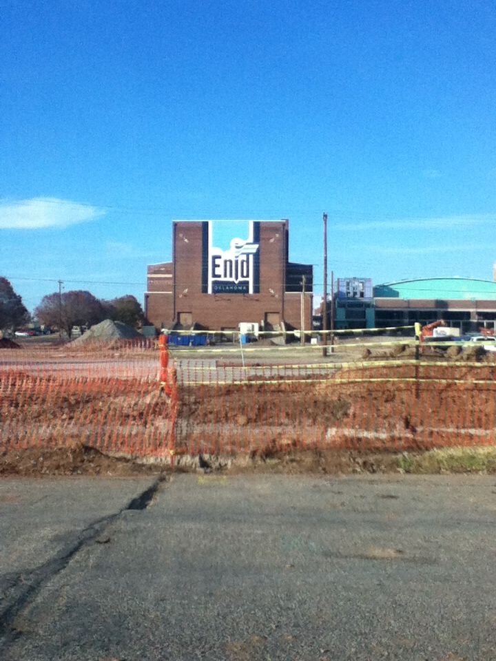 A backside view of Convention Hall